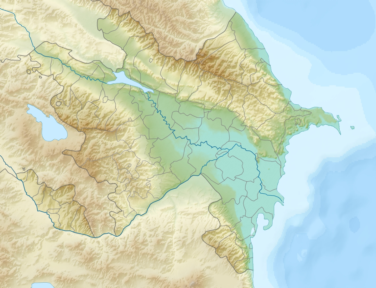 Location map of Azerbaijan. Equirectangular projection. Strechted by 131.0%. Geographic limits of the map: * N: 42.0° N * S: 38.2° N * W: 44.5° E * E: 51.0° E Made with Natural Earth. Free vector and raster map data @ .